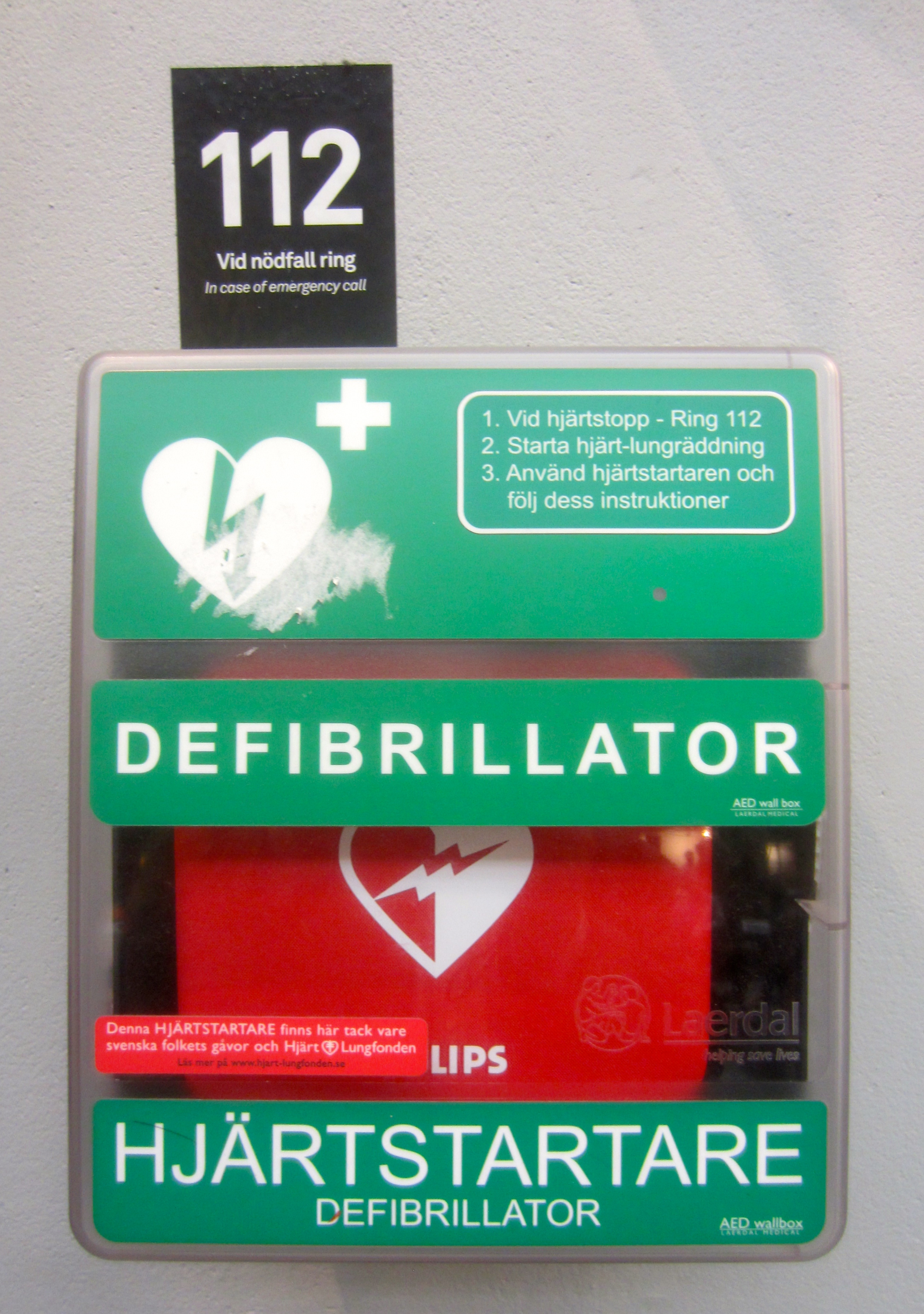 Emergency medical responder (EMR), Stockholm Central Station, Sweden.